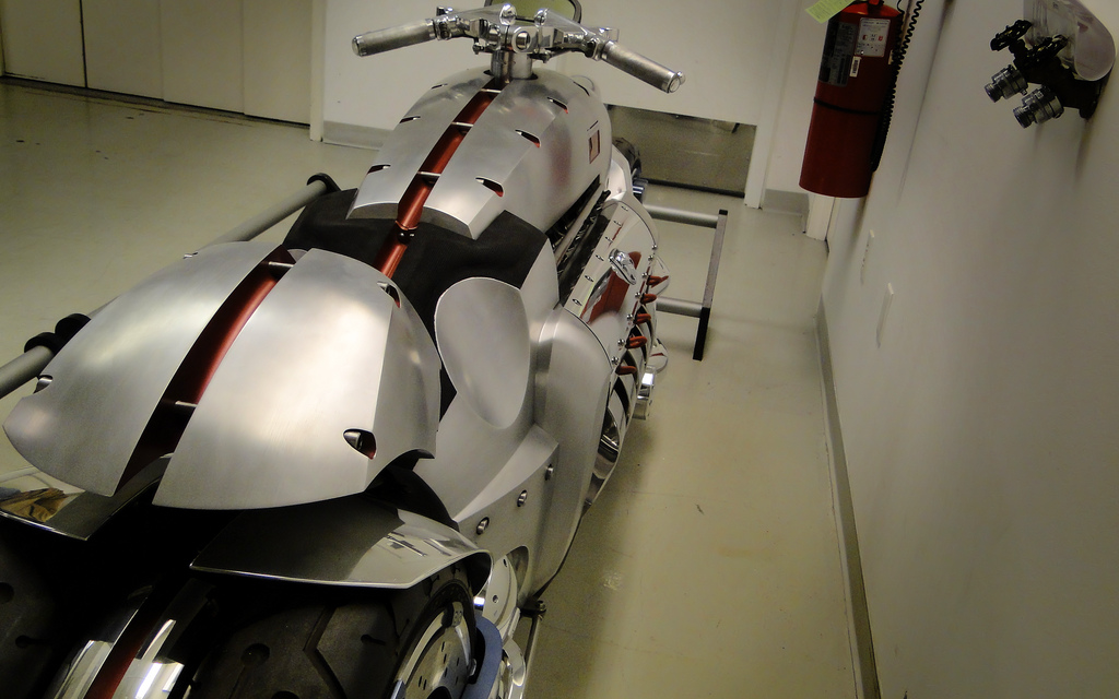 The Dodge Tomahawk is a concept motorcycle of which only a few were built. They were made in 2003, and sold in the Neiman Marcus catalog for $555,000 each. It has an 8.3 liter V10 Dodge Viper engine, and two closely fitted wheels on both ends. It is the only motorcycle (concept or otherwise) that Dodge has ever made. Taken at the Walter P. Chrysler Museum. Camera: Sony Cyber-Shot DSC-HX1